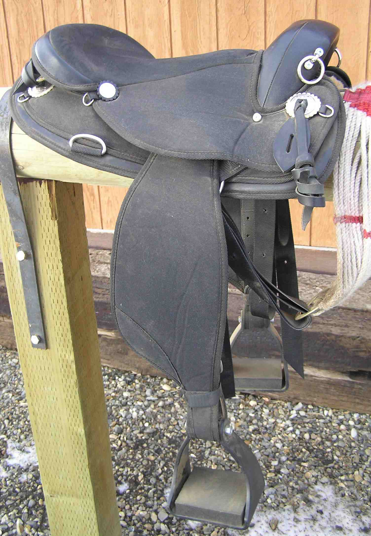 An endurance saddle, based on a western saddle design. Cordura materials over a synthetic tree